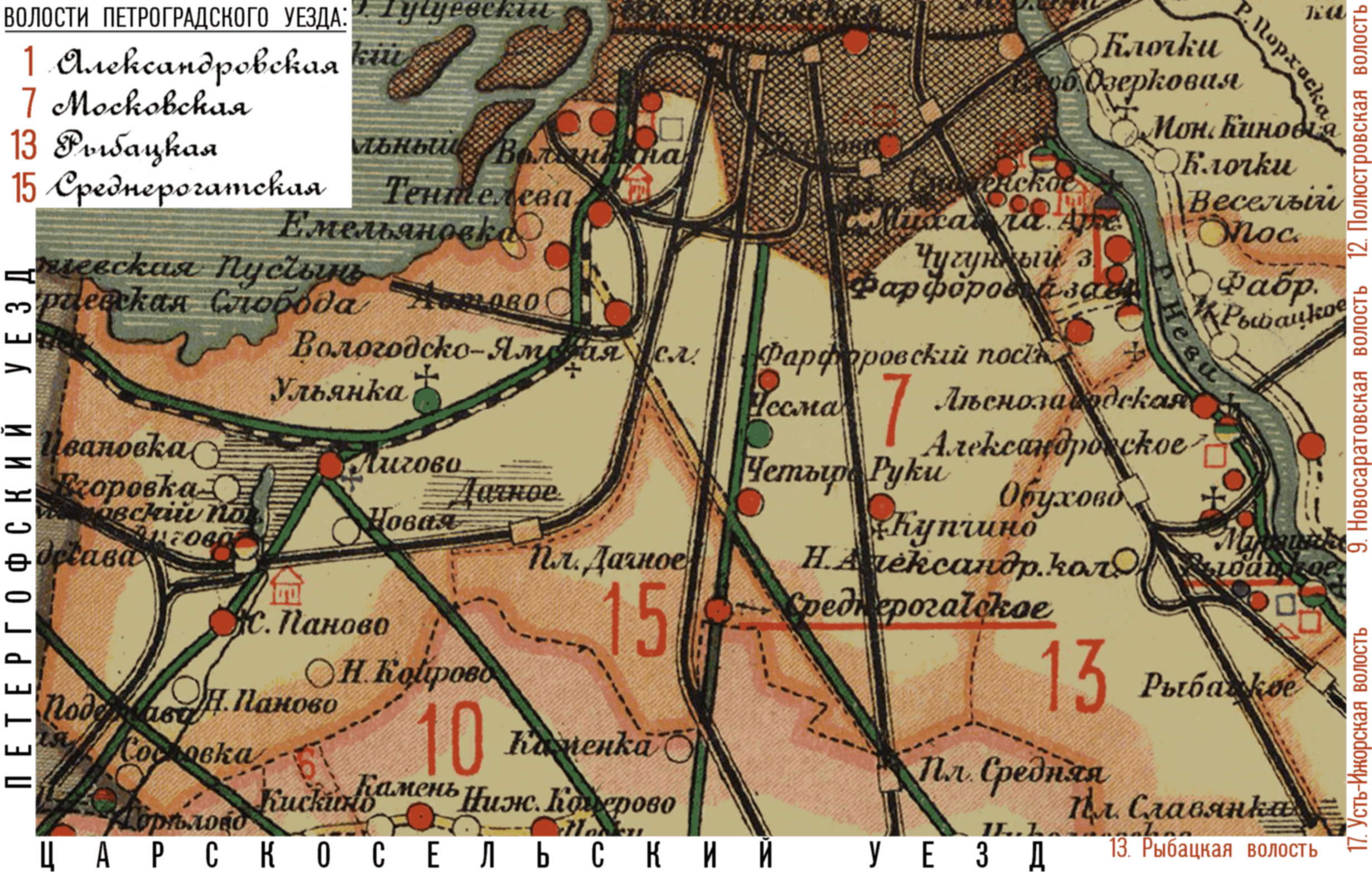 Map of the SW part of the Petrogradsky Uezd of the Petrograd Gubernia in 1916